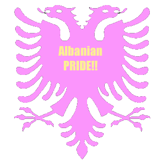 edited copy of the shqiponje